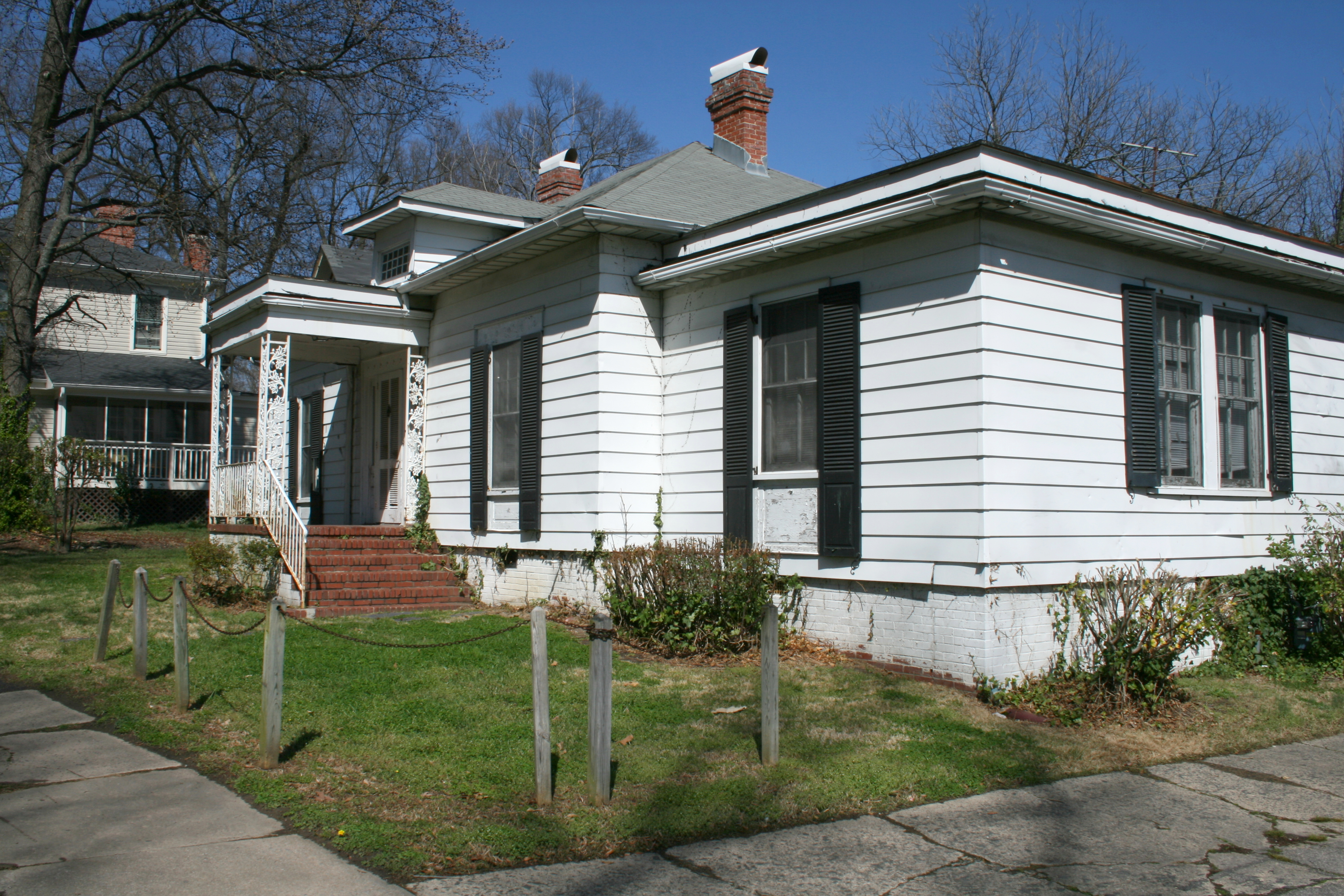 The house at 610 North Buchanan Boulevard in Durham, North Carolina, the location of the 2006 Duke University lacrosse incident.